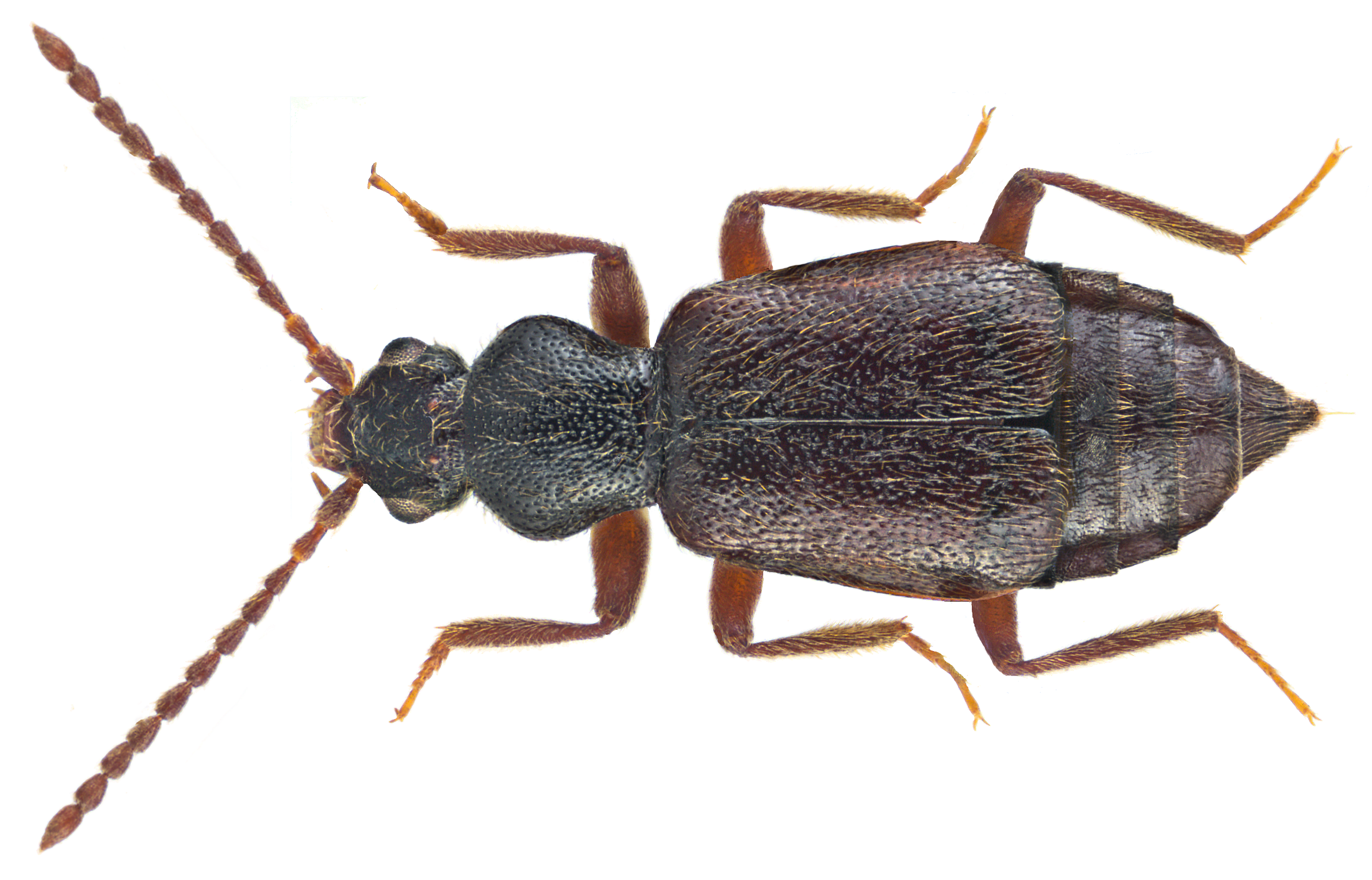 Family: Staphylinidae Size: 4,4 mm (3,5 to 4,5 mm) Distribution: West Palaearctic and Central Asia Ecology: living in wetlands Location: Germany, Bavaria, Upper Franconia, Kulmbach leg.det. U.Schmidt, 11.IV.1974 Photo: U.Schmidt, 2015